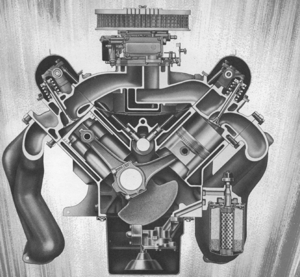 FE cutaway